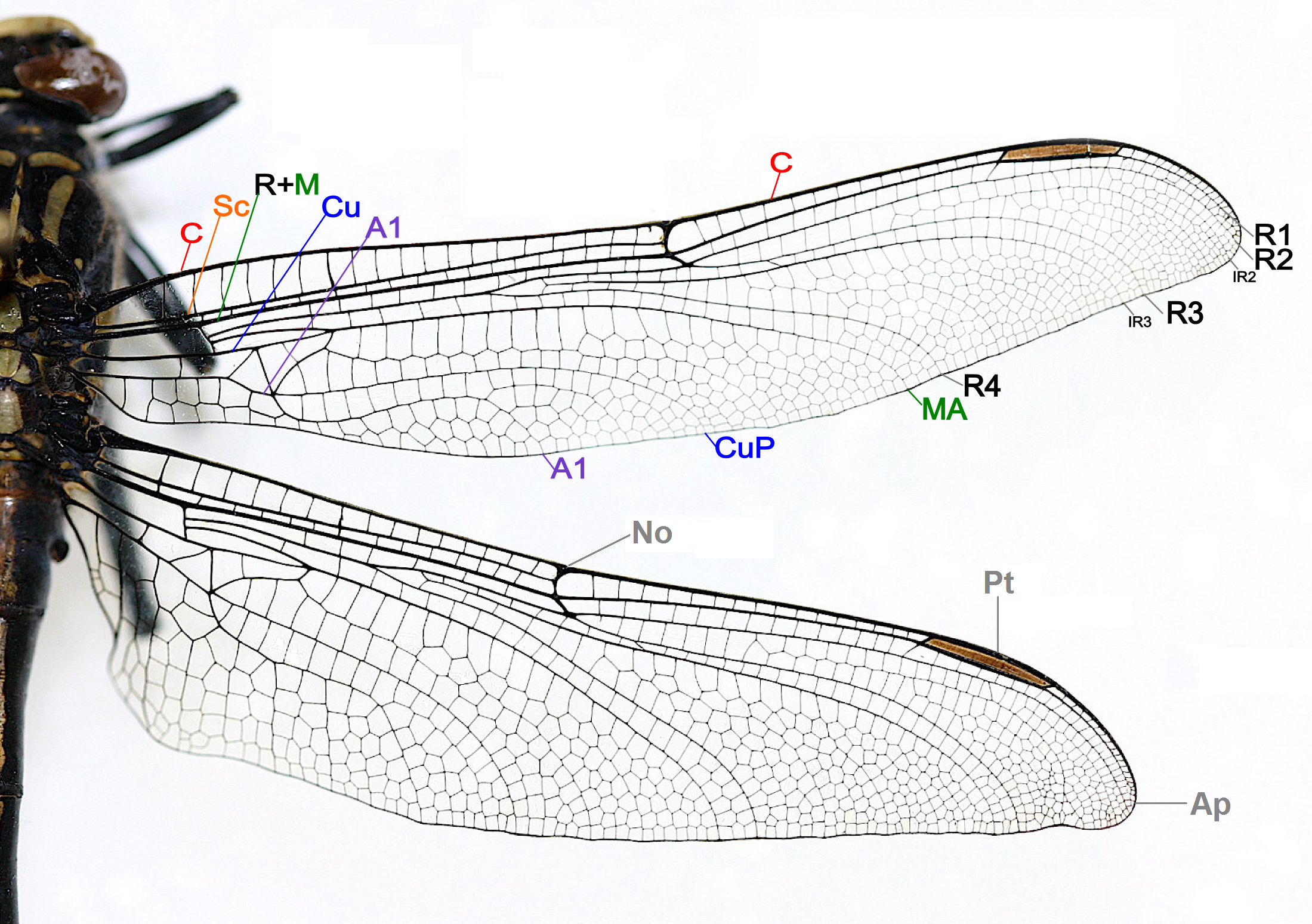 Odonata - Gomphidae wing structure with venation.